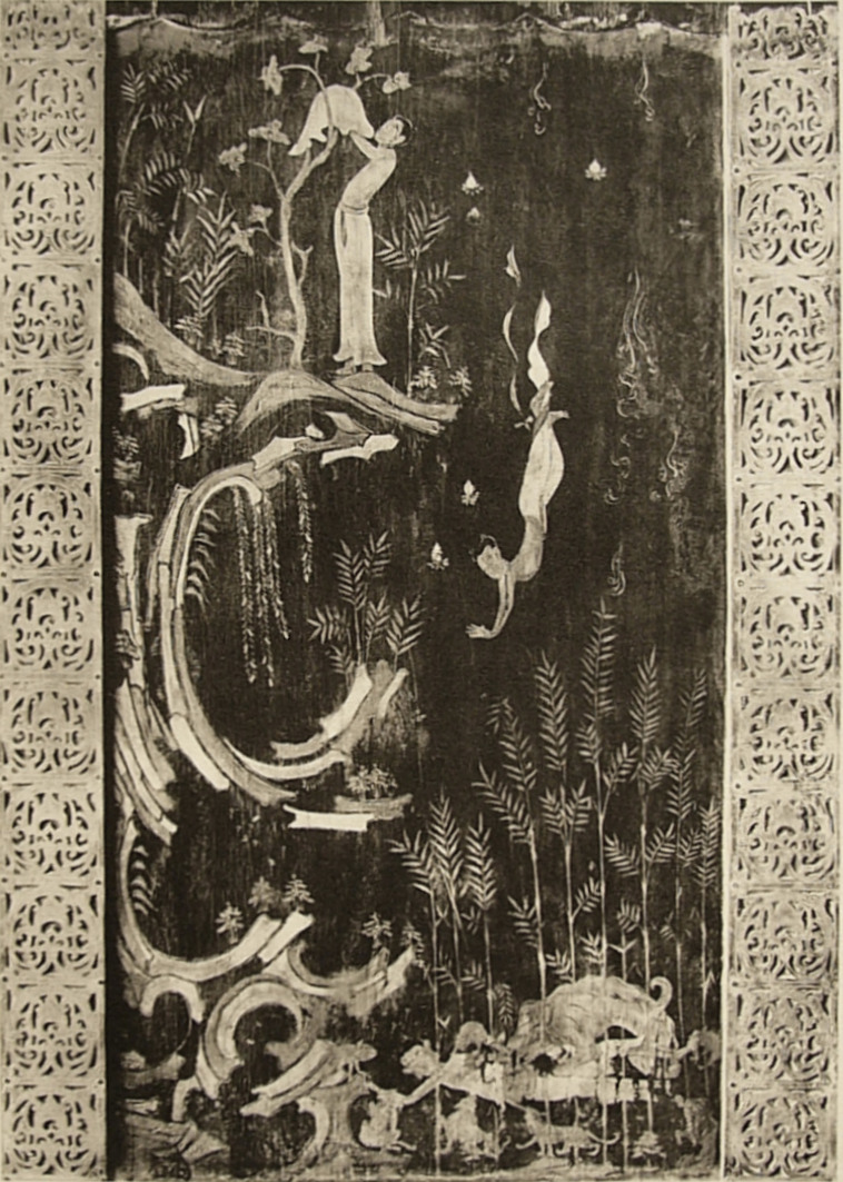 Painting on Tamamushi Shrine, Jataka, Lacquer and colour on Wood, about 70cm height 67cm wide , Horuji, Nara, Japan, ACE 7th century attributed